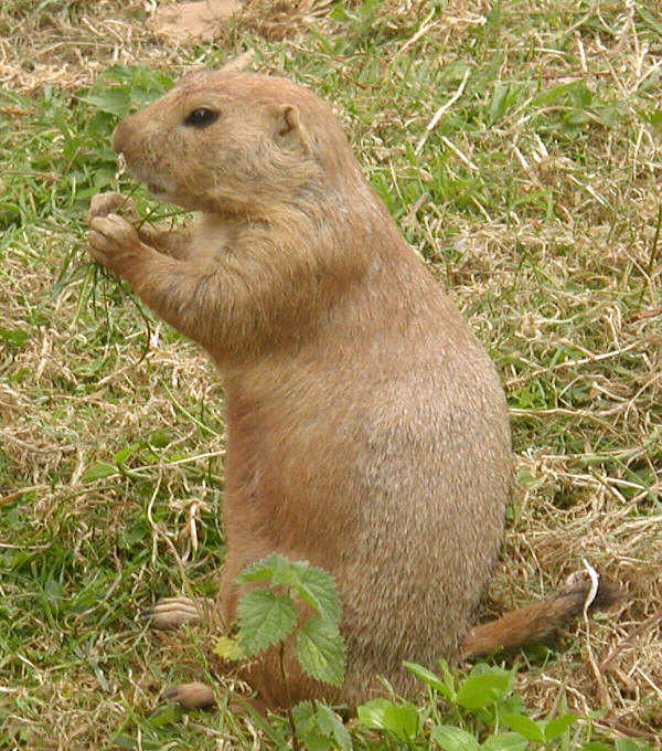 Black-tailed Prairie Dog (Cynomys ludovicianus) at Bristol Zoo, Bristol, England.